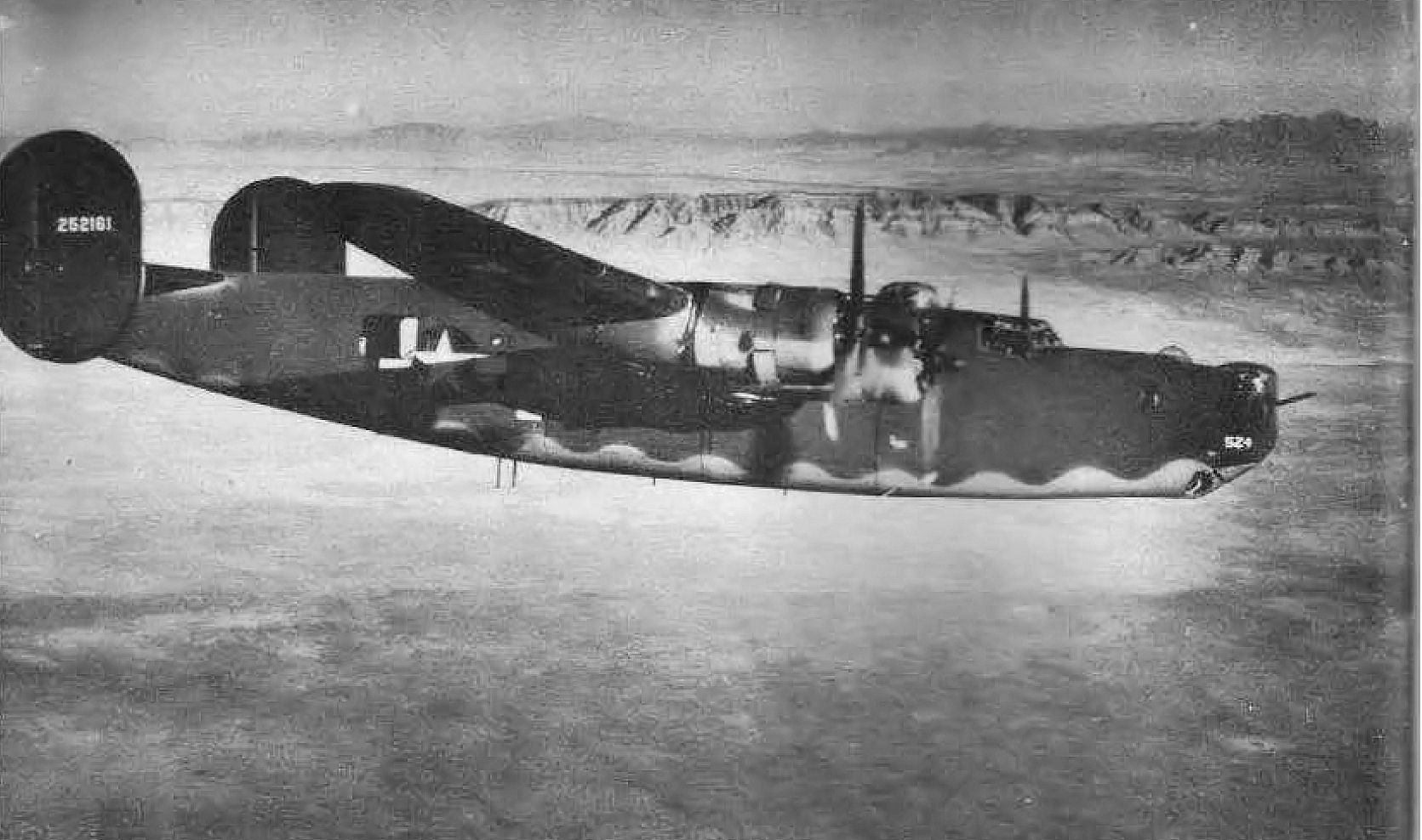 Alamogordo Army Airfield - B-24 Liberator 42-52161 over New Mexico